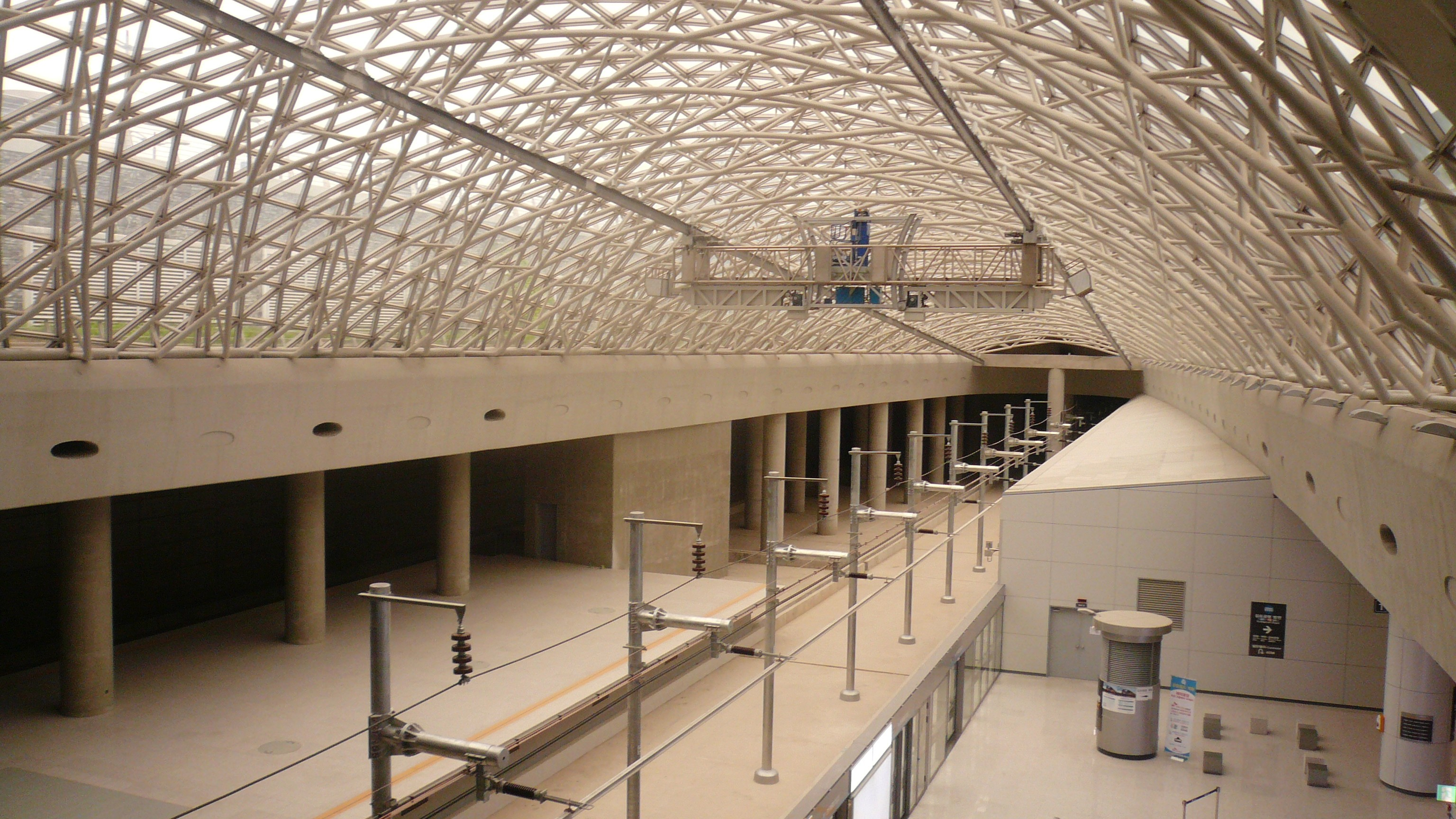 A picture of A'REX train station at Incheon International Airport that I made for wikipedia. South Korea. My first upload was a PNG, but wikipedia didn't seem to like that so this version is a JPG.